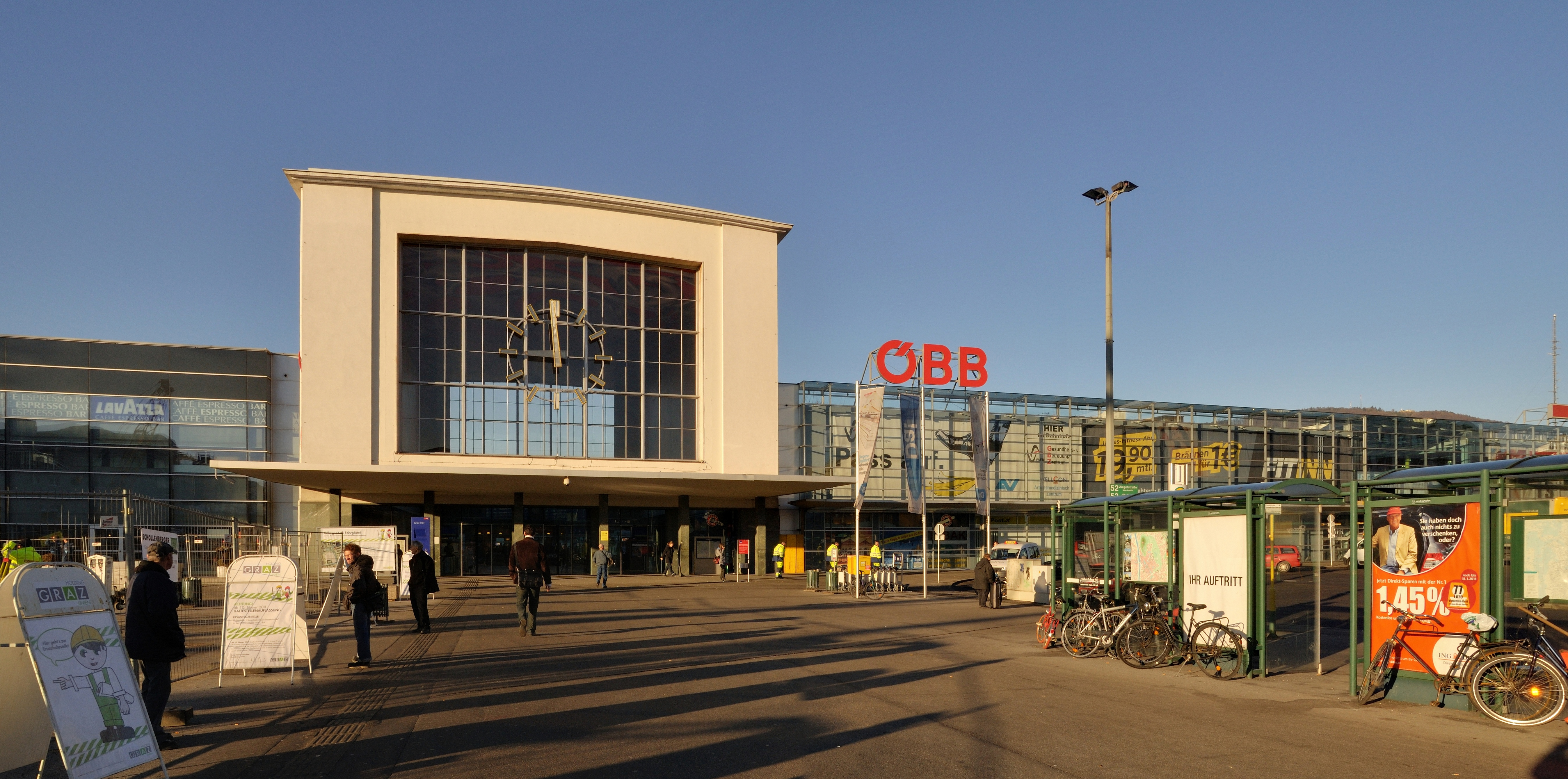 Graz, Austria: central railway station